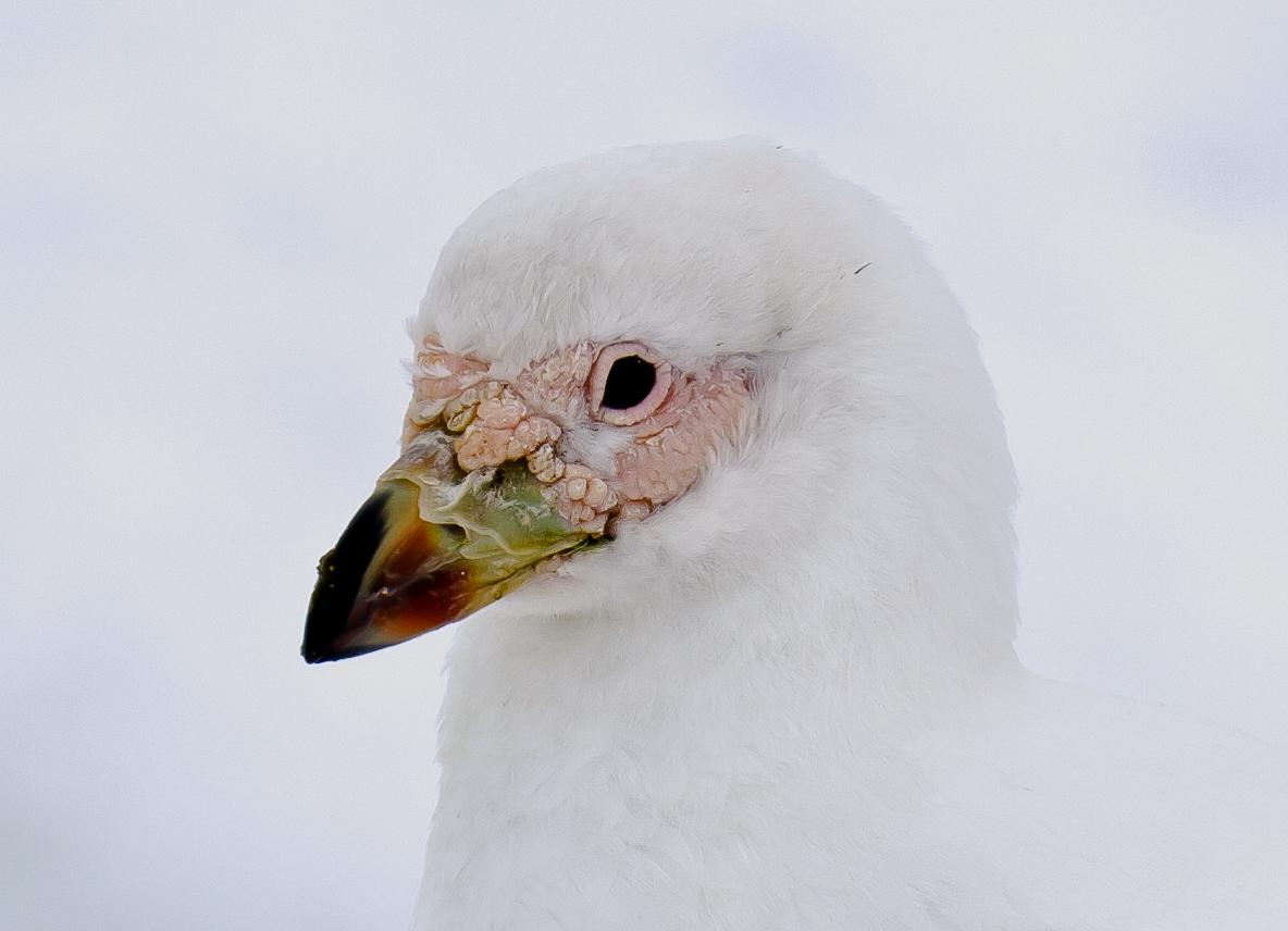 Portrait of a White-faces Sheathbill